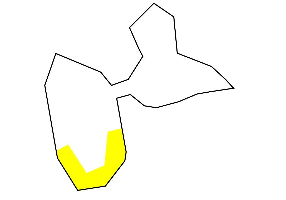 Banana farming in Guadeloupe during seventies